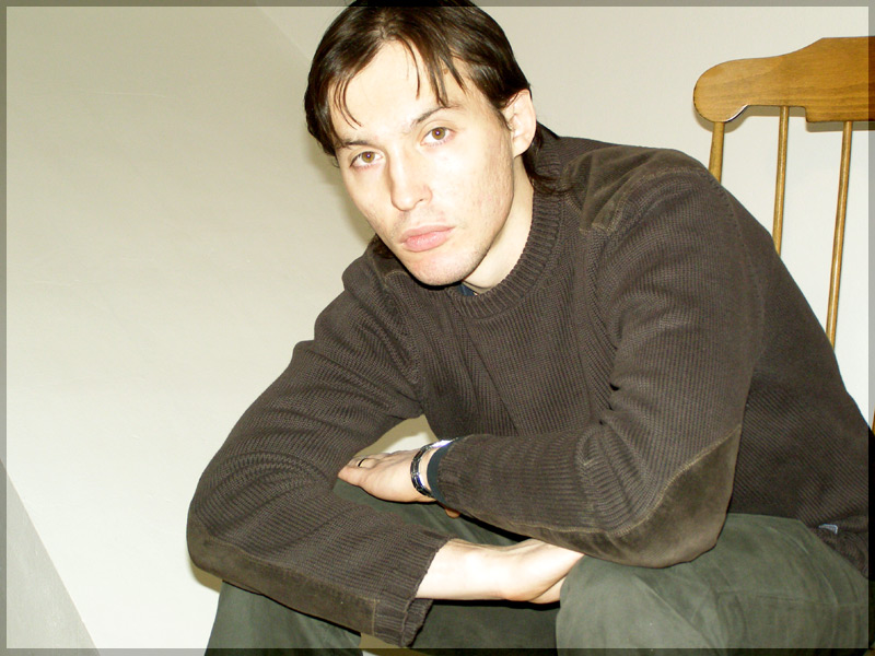 Uładzimir Katkoŭski, a Belarusian blogger, web designer and website creator, Belarusian Wikipedia creator